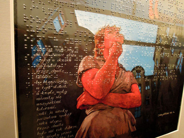 The Braille Comics typhlographics